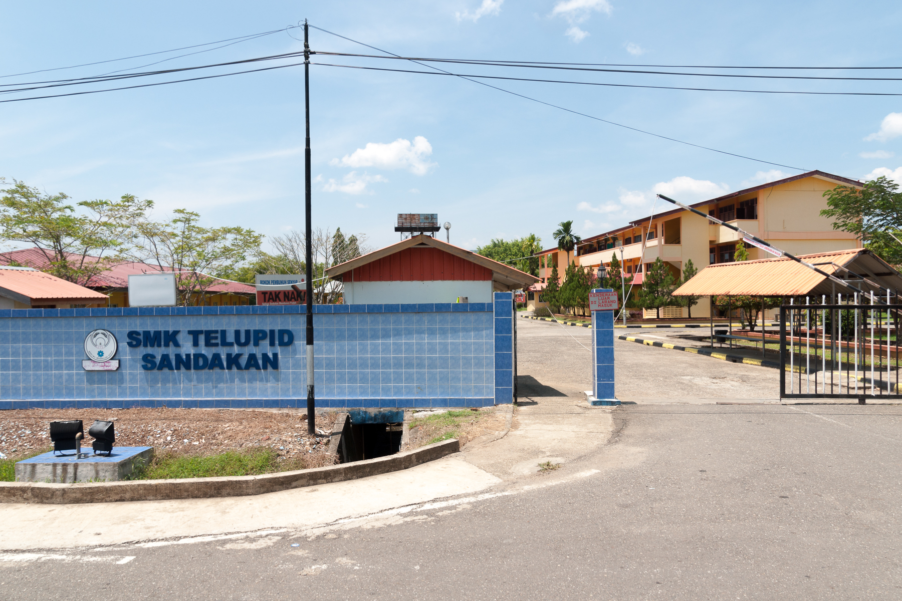 Telupid, Sabah: SMK Telupid in Telupid, Main gate